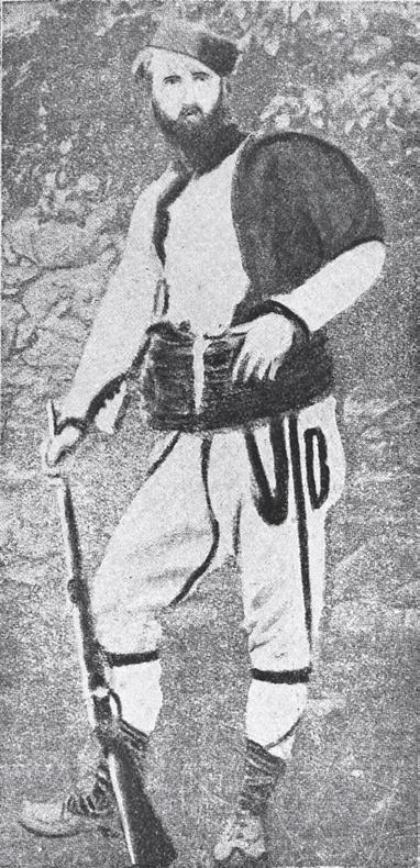 Portrait of IMARO voevoda Petar Atsev